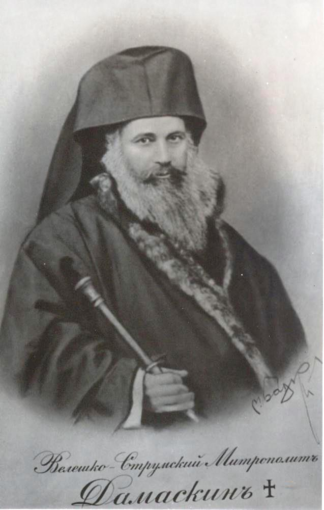 Damaskin of Veles, Veles-Strumitsa Eparchy